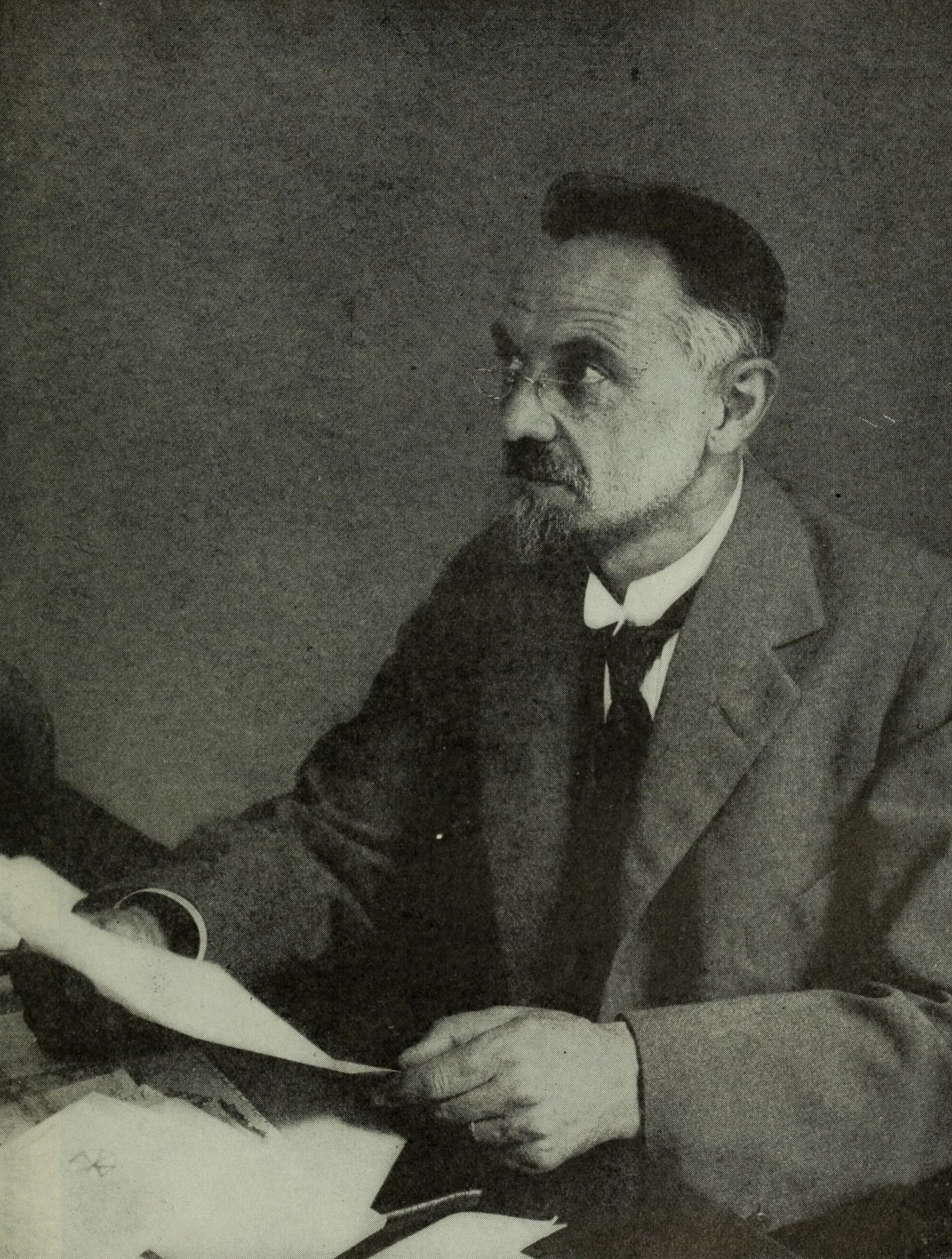 Portrait of Leonid Krasin